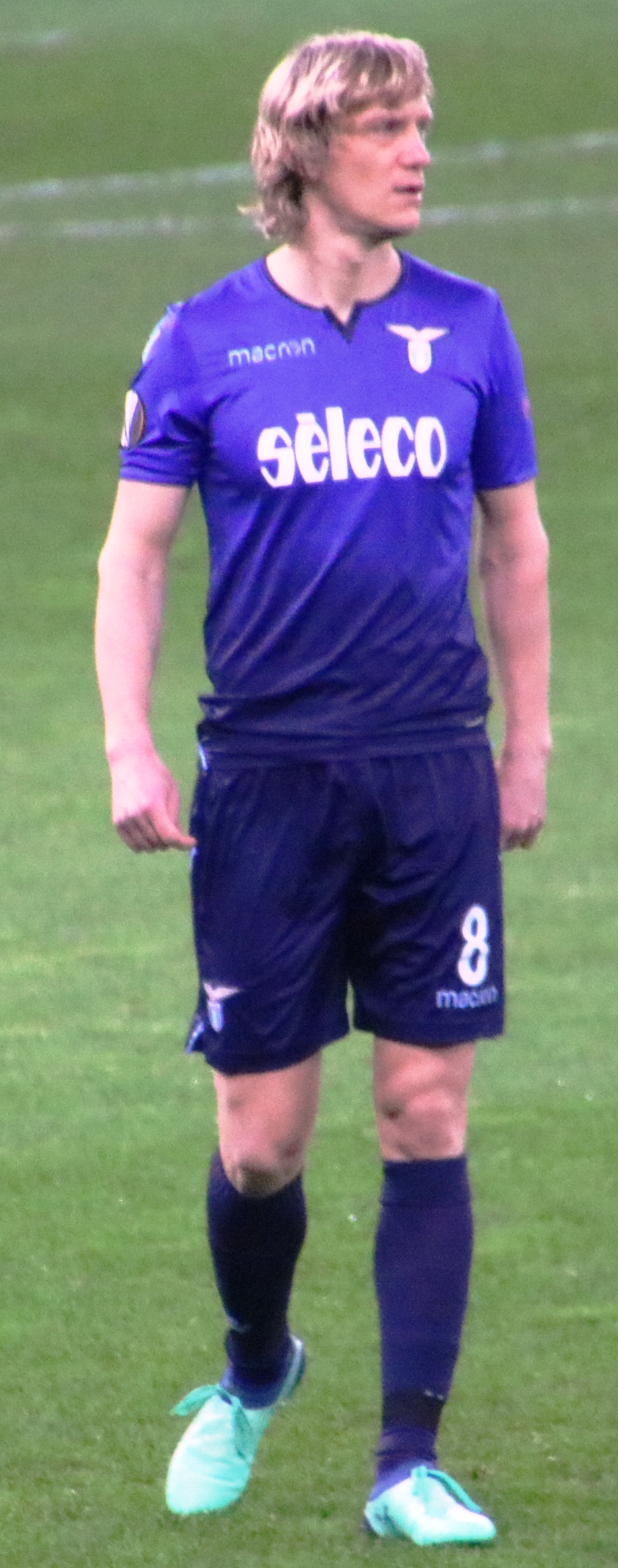 UEFA euro League Quarterfinal 2nd leg